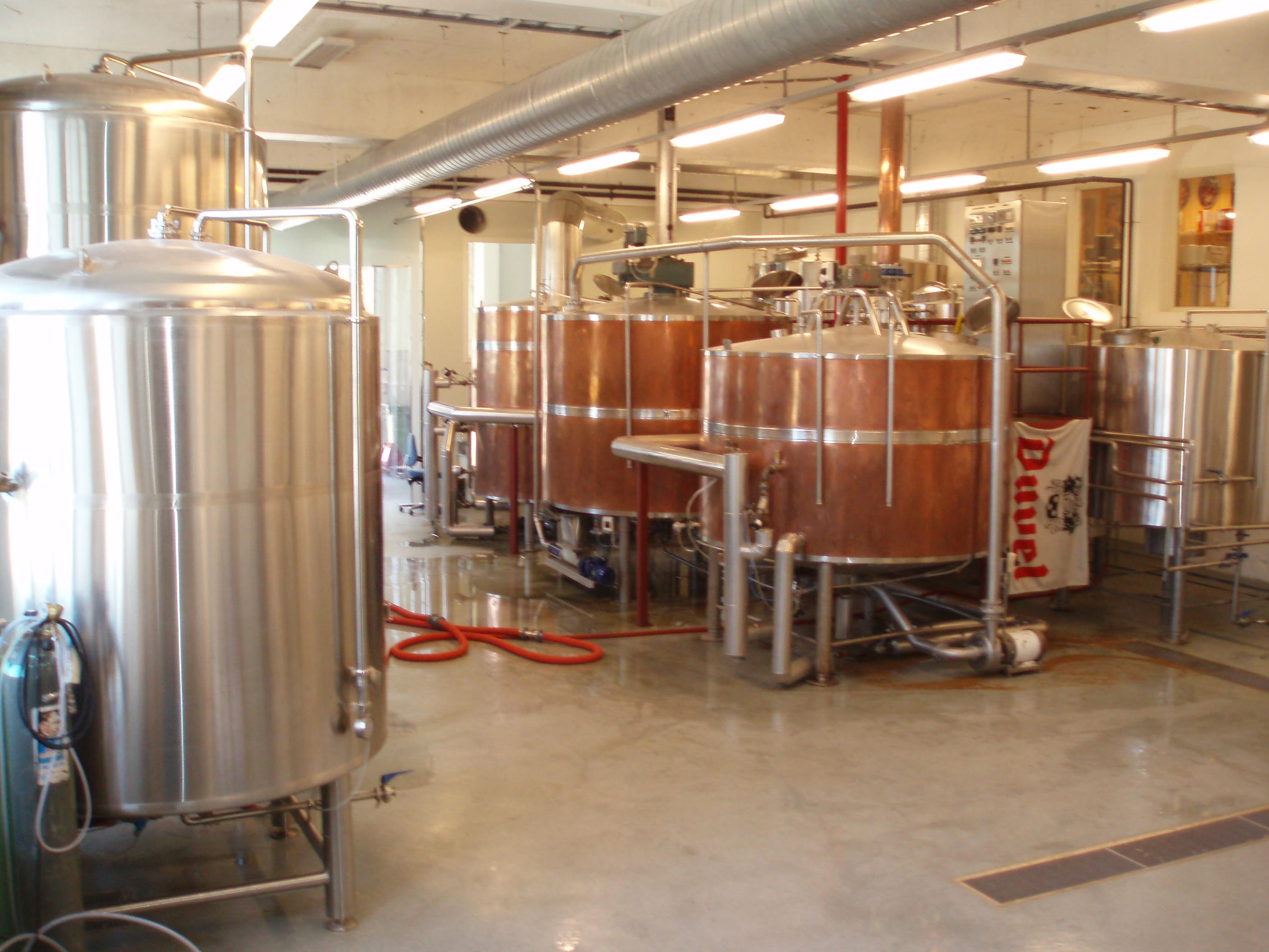 Inside a minor, modern brewery (Nøgne-Ø), Norway 2006-07-09, by User:Friman